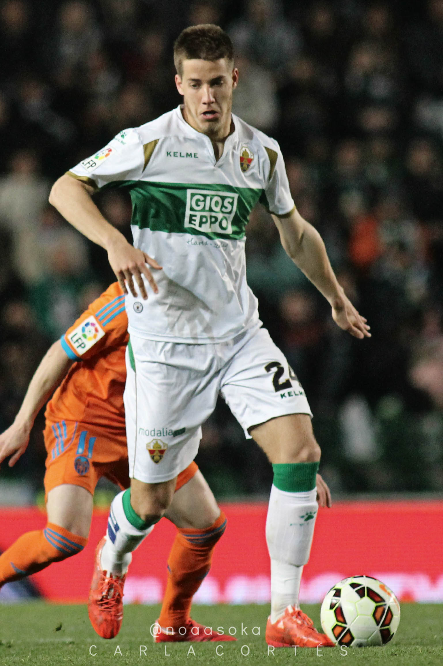 Mario Pasalic playing for Elche CF in 2015Fotografía: Carla Cortés / @noaasoka